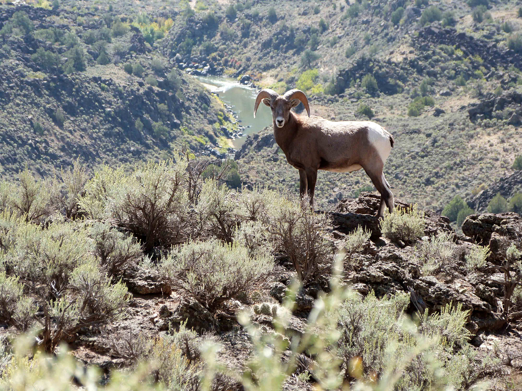 Go for a hike and listen for an eagle as it soars above an 800-foot gorge, fish in world-class trout waters, marvel at a herd of elk crossing the desolate plateau, or raft alongside the river otter. You have entered the natural world of the Río Grande del Norte National Monument! The landscape of this special place in northern New Mexico is a showcase of stark, wide open spaces covering 242,500 acres. At an average elevation of 7,000 feet, the monument is dotted by volcanic cones and cut by steep canyons. While the Río Grande carves a deep gorge through layers of volcanic basalt flows and ash, nearby cottonwoods and willows shelter abundant songbirds and waterfowl. An amazing array of wildlife dwells among the piñon and juniper woodlands and the mountaintops of ponderosa, Douglas fir, aspen, and spruce (some 500 years old). Raptors, mule deer, cougar, and black bear are not uncommon. Be alert! At any moment bighorn sheep may appear! Since prehistoric times this area has attracted human activity, as evidenced by petroglyphs, prehistoric dwelling sites, and many other types of archaeological discoveries. Abandoned homesteads from the 1930s reflect more recent activity. On March 25, 2013, a Presidential proclamation designated the area a national monument, managed by the Bureau of Land Management as part of the National Landscape Conservation System. Learn more about the monument: Photos by Bob Wick, BLM